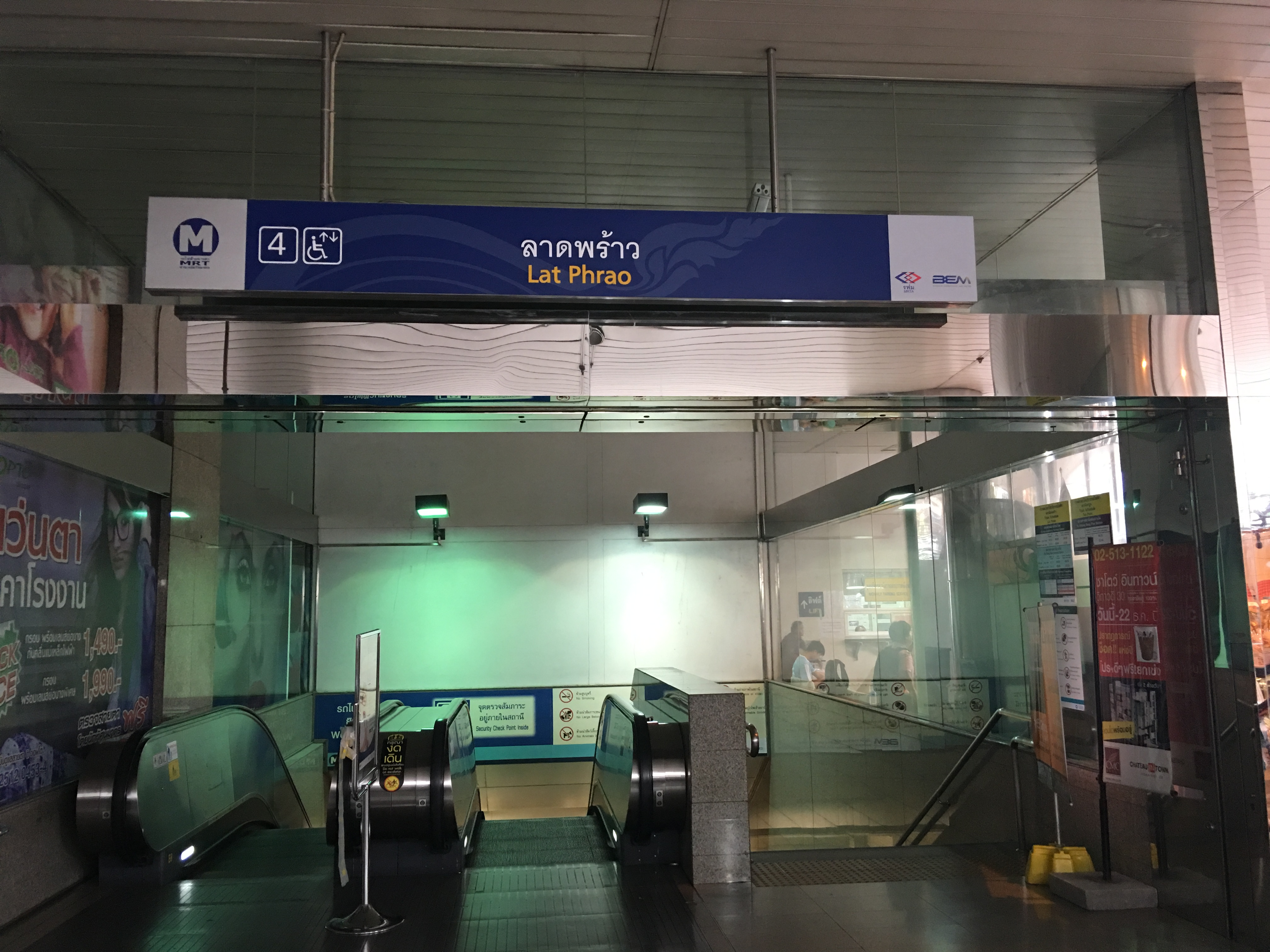 The entrance to Lat Phrao Station at Park & Ride Building